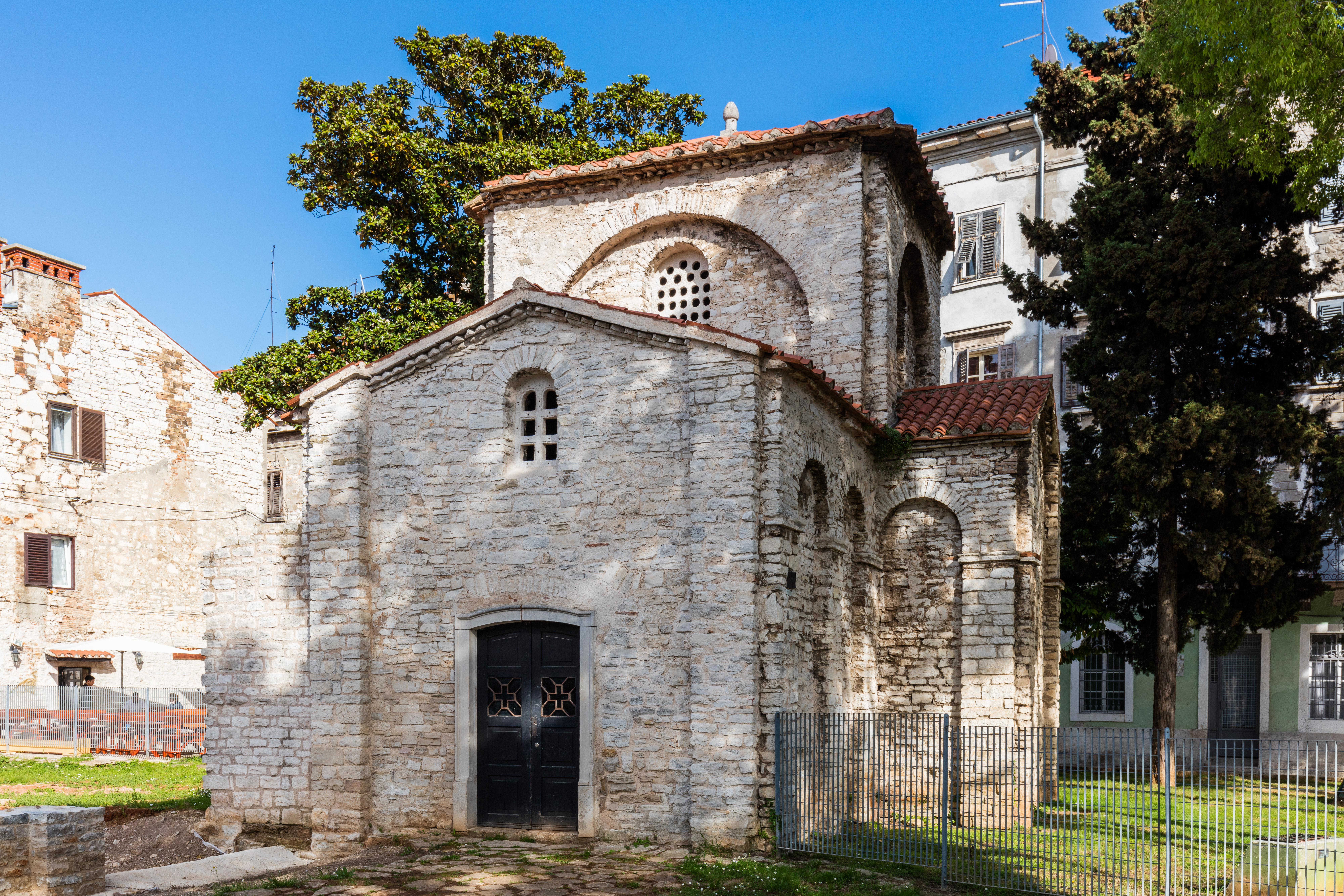 Chapel of St.Mary Formosa, Pula, Croatia. This is a a photo of a cultural heritage in Croatia with ID: Z-5638